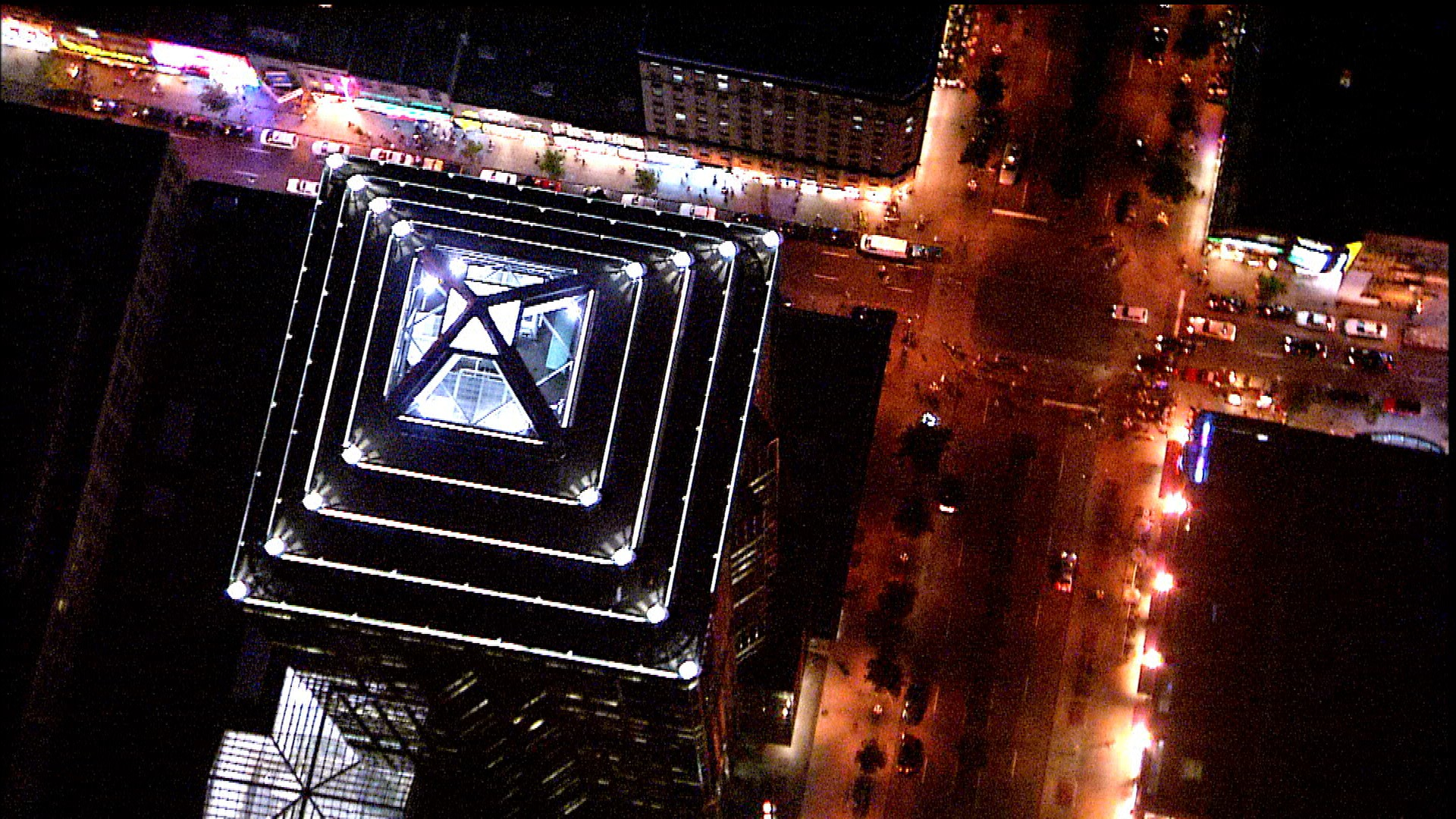 Downtown streets of Montreal, Québec (Canada)